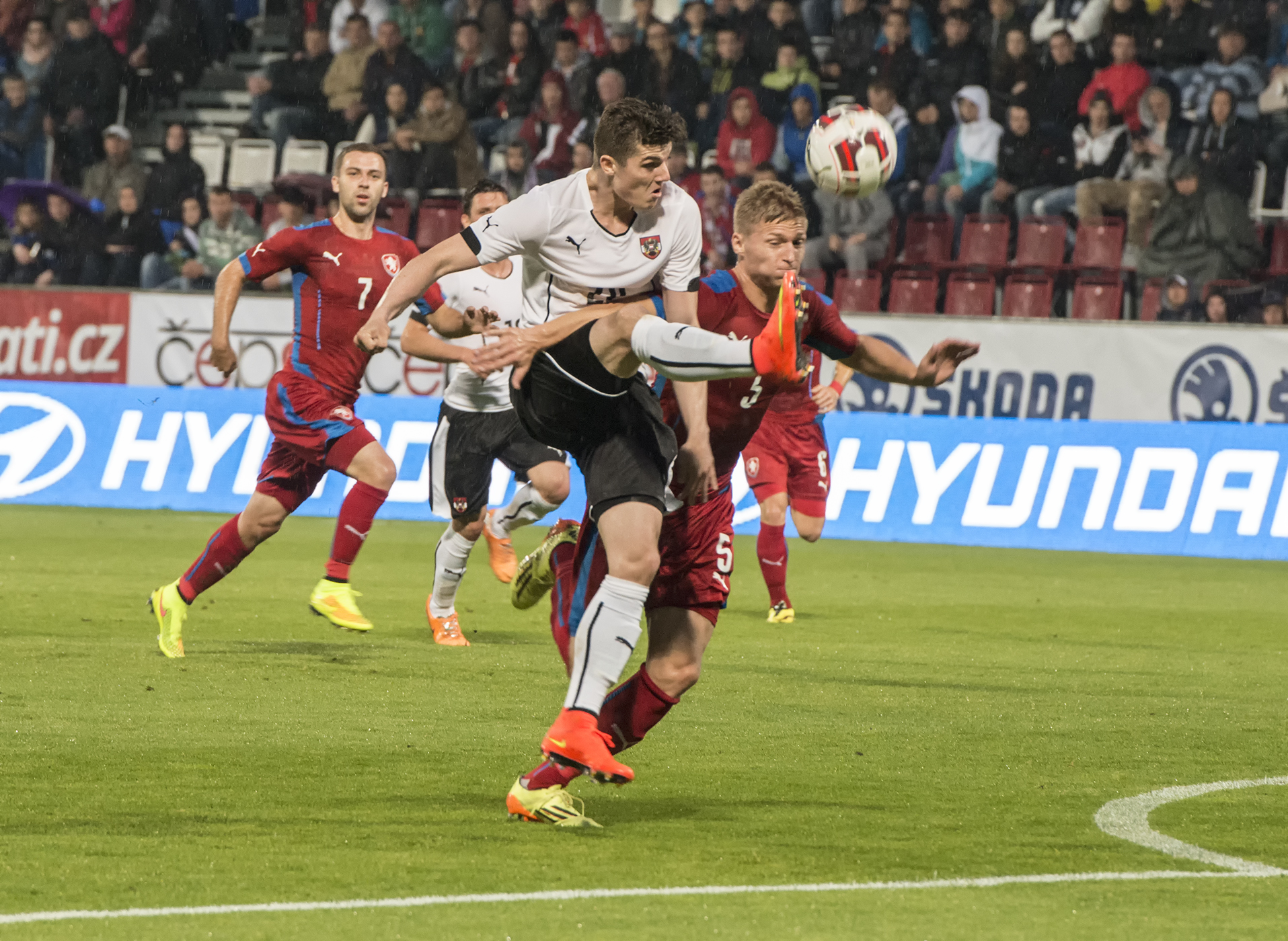 Soccer game Czechia - Austria 2014